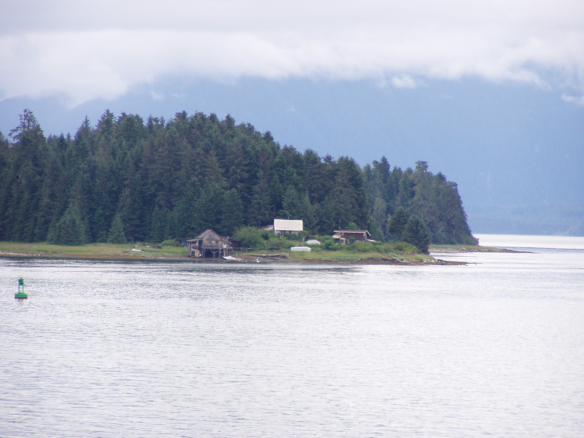 Kupreanof across from Petersburg